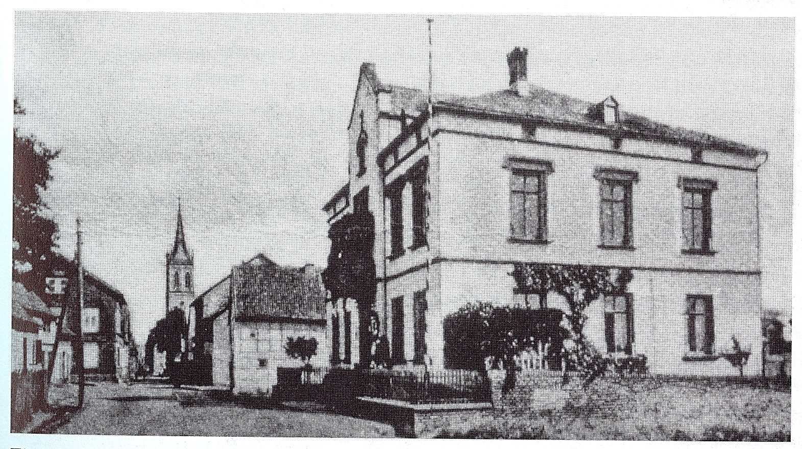 r